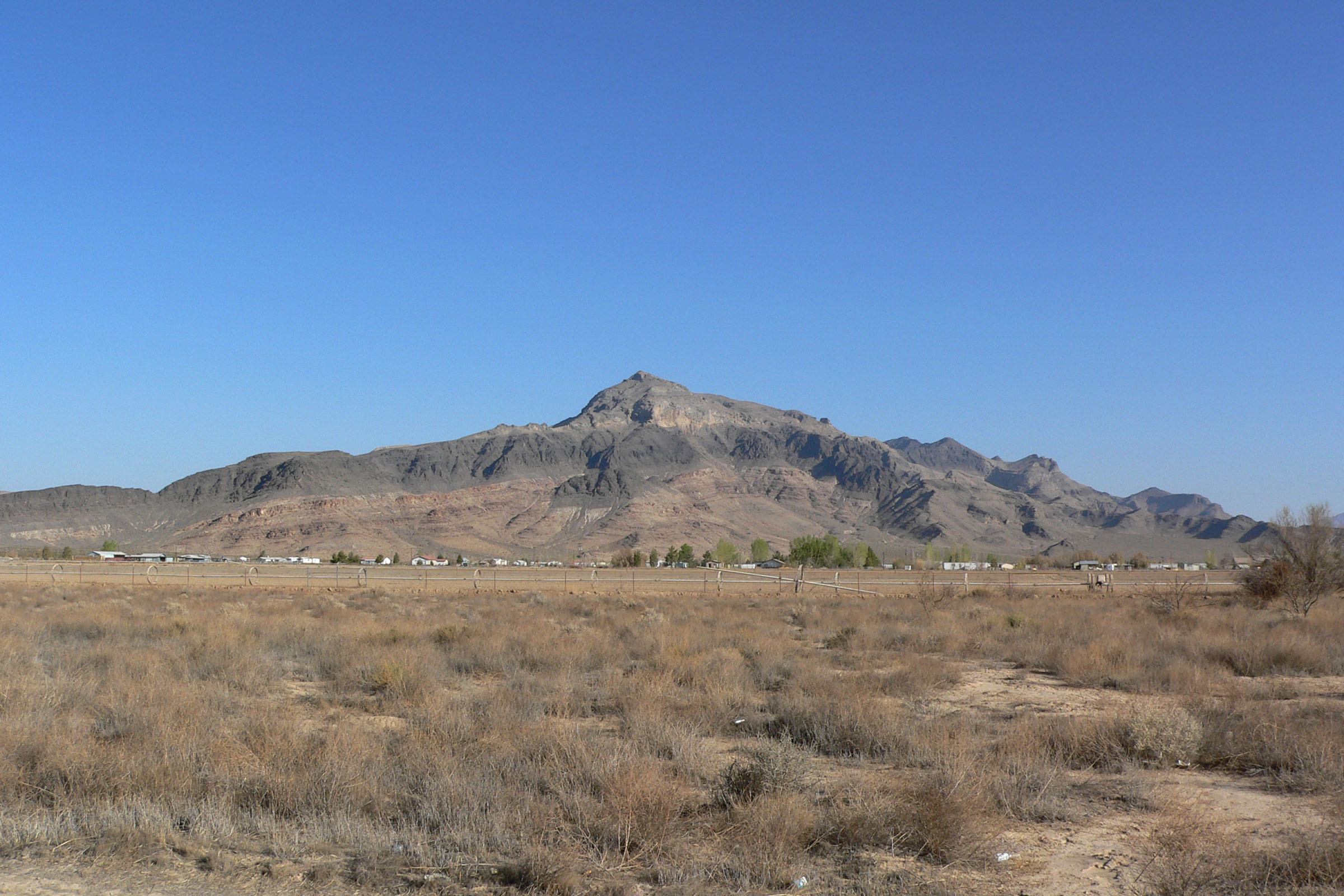 Last Chance Range (Nevada) seen from Bell Vista Ave. in Pahrump, Nevada